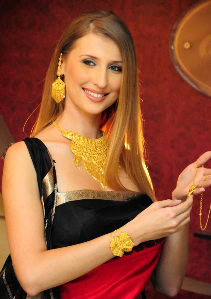 Claudia Ciesla at press shoot with Indian jewelry in Calcutta (2008)